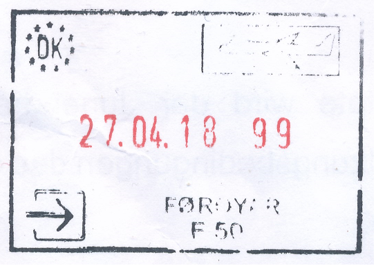 Danish entry stamp from Vágar Airport (Faroe Islands)